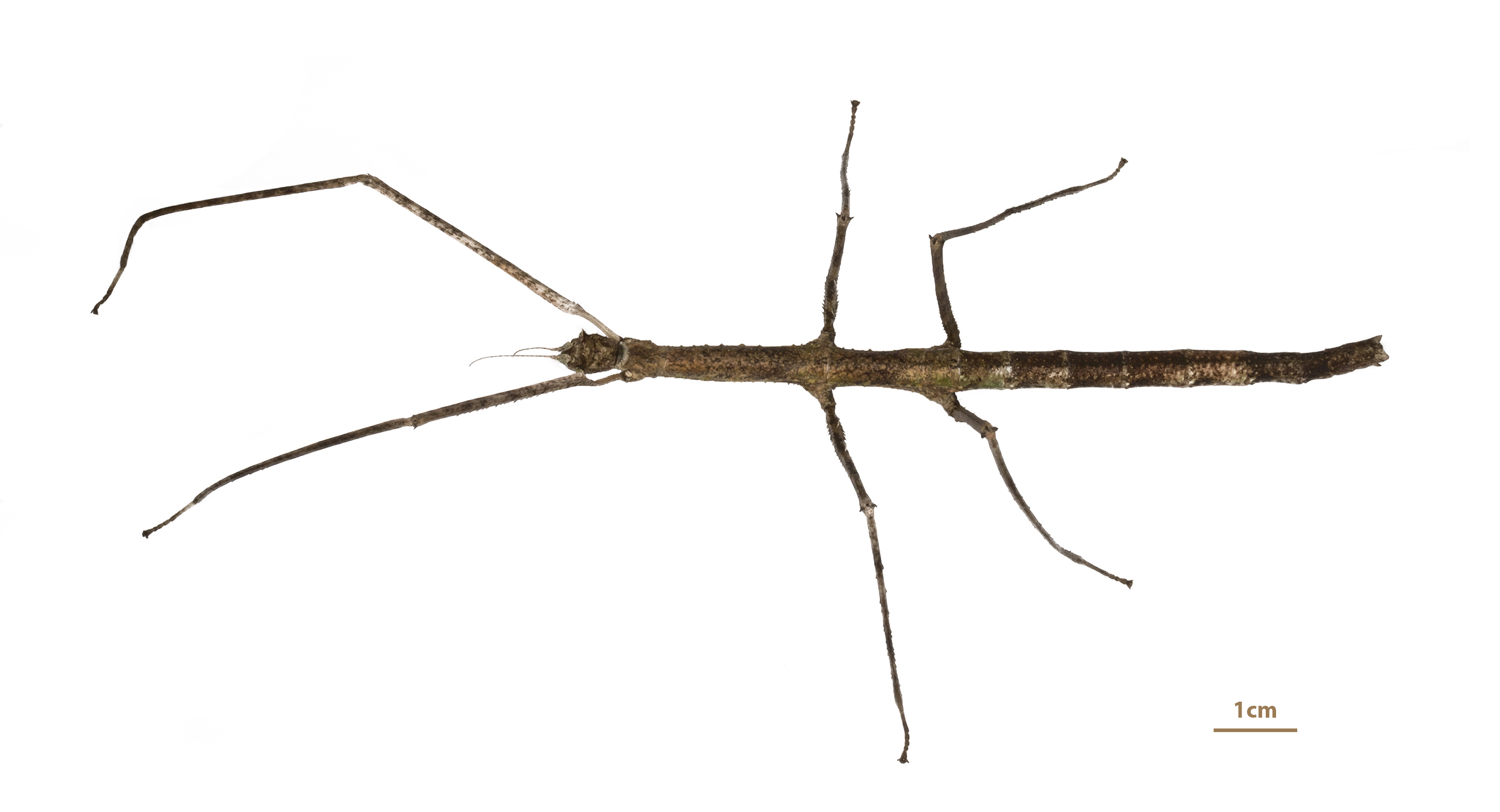 Annam walking stick (Medauroidea extradentata) (female)